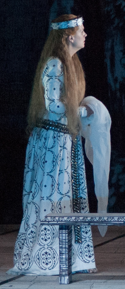 Fierrabras, Salzburger Festspiele 2014, directed by Peter Stein, with Julia Kleiter, Georg Zeppenfeld and Michael Schade